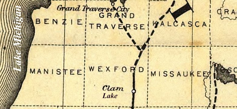 1872 map of the Chicago and Canada Southern Railway from [1].